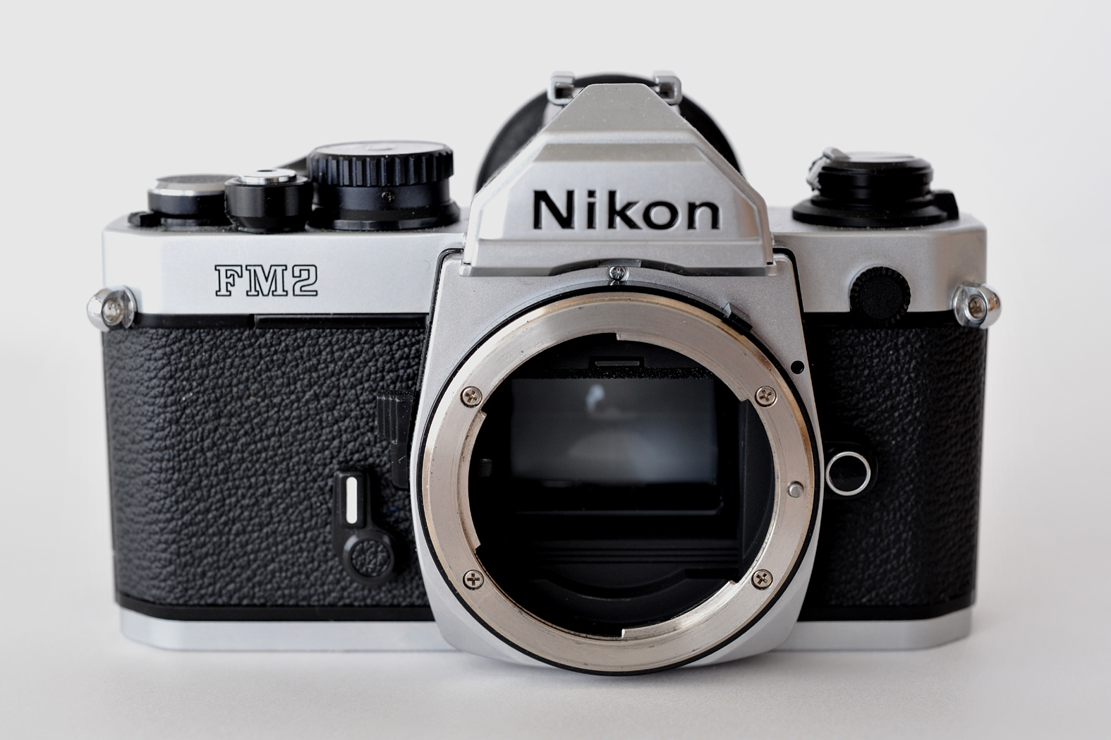 Nikon Fm2n body, front view.